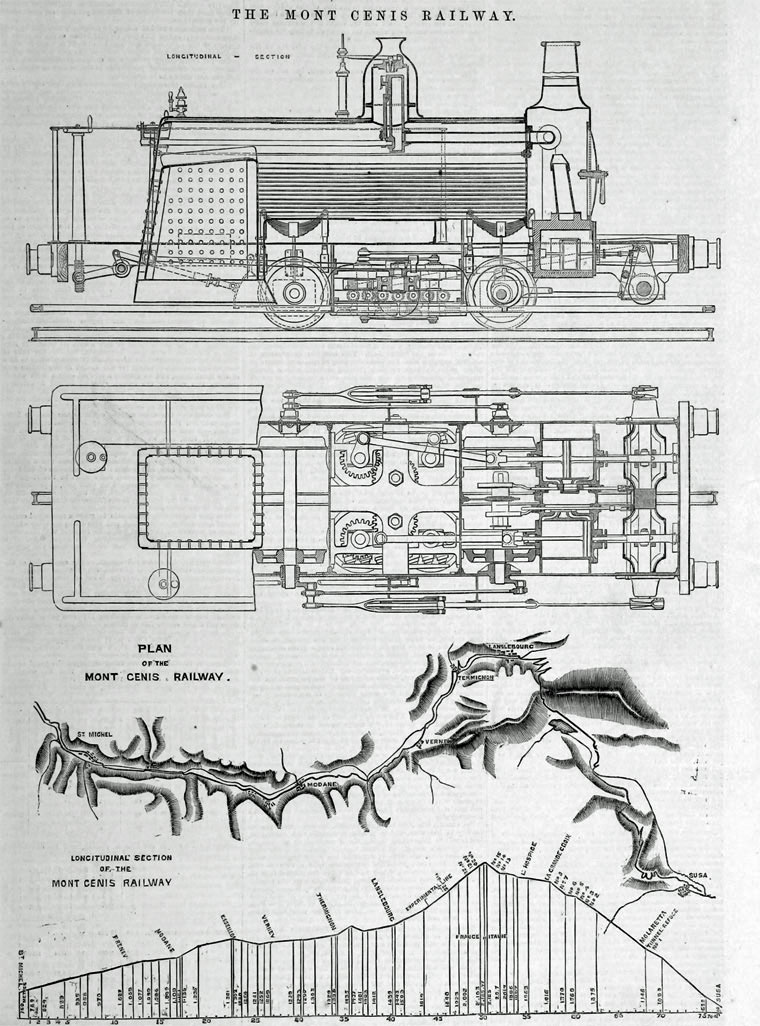 Plan of the Mont Cenis Railway